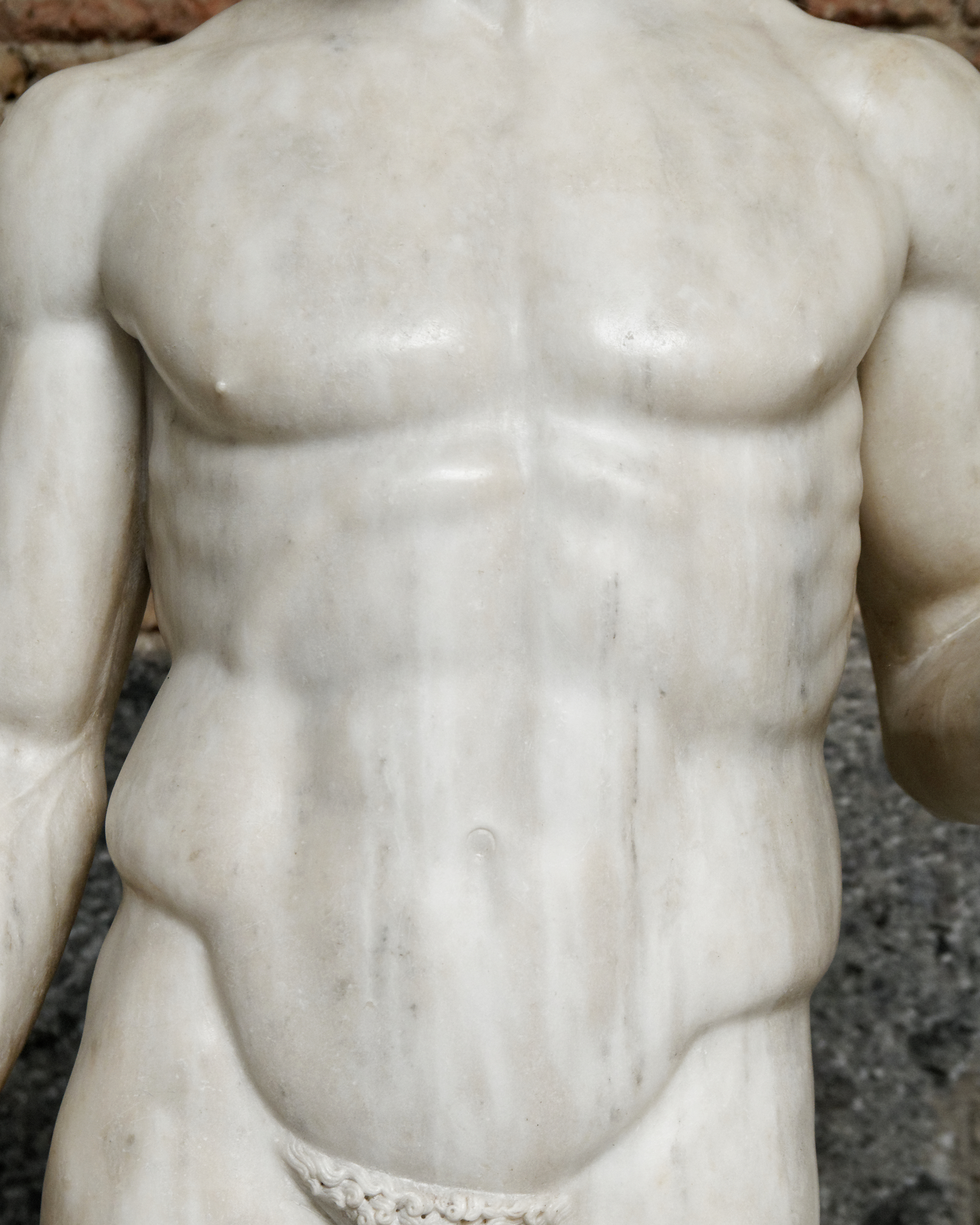 Statue of a young warrior carrying a spear. Roman copy of the Imperial era after a Greek original of the Late Classicism. trunk